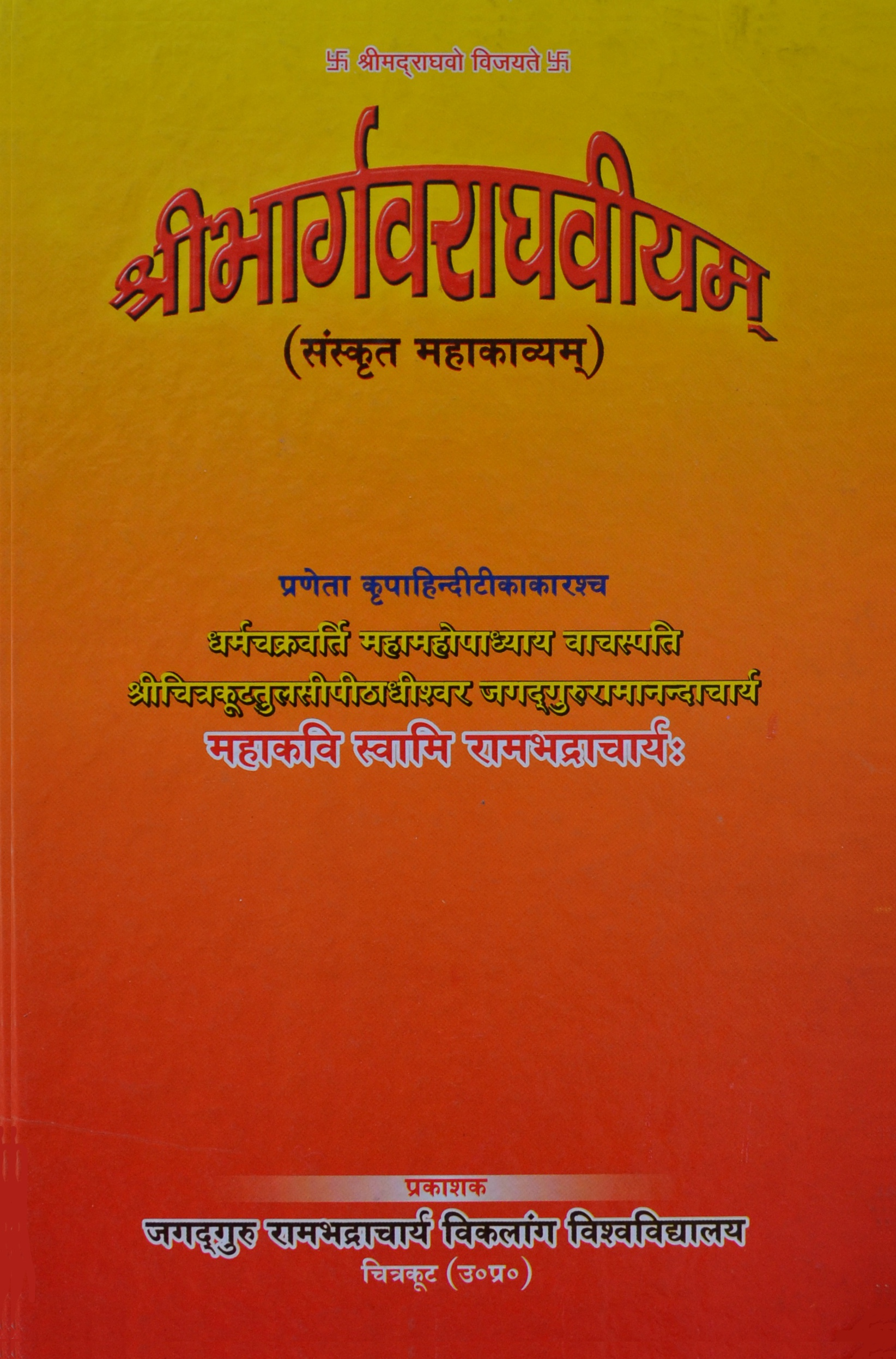 Cover page of Sribhargavaraghaviyam